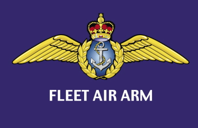 Fleet Air Arm